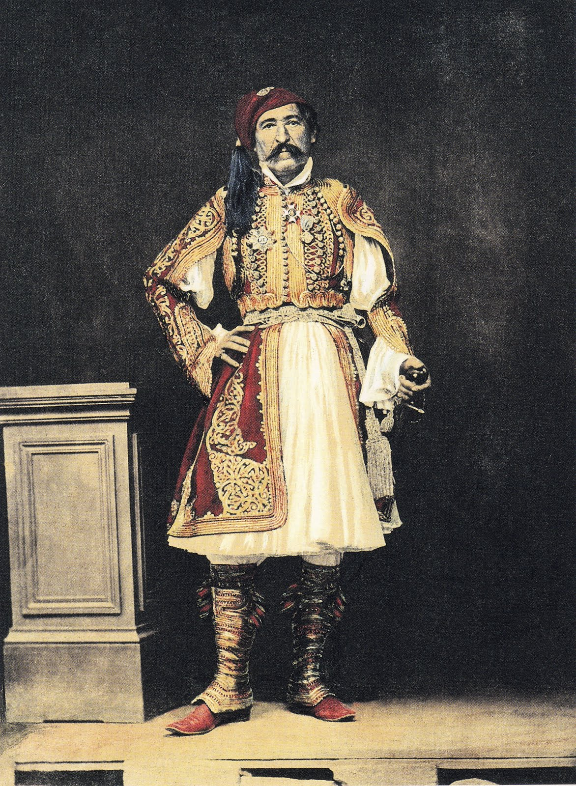 Greek General Christodoulos Chatzipetros in the uniform of the "Phalanx", 1855. Photo taken & coloured by Filippos Margaritis (1810-1892), the first Greek photographer